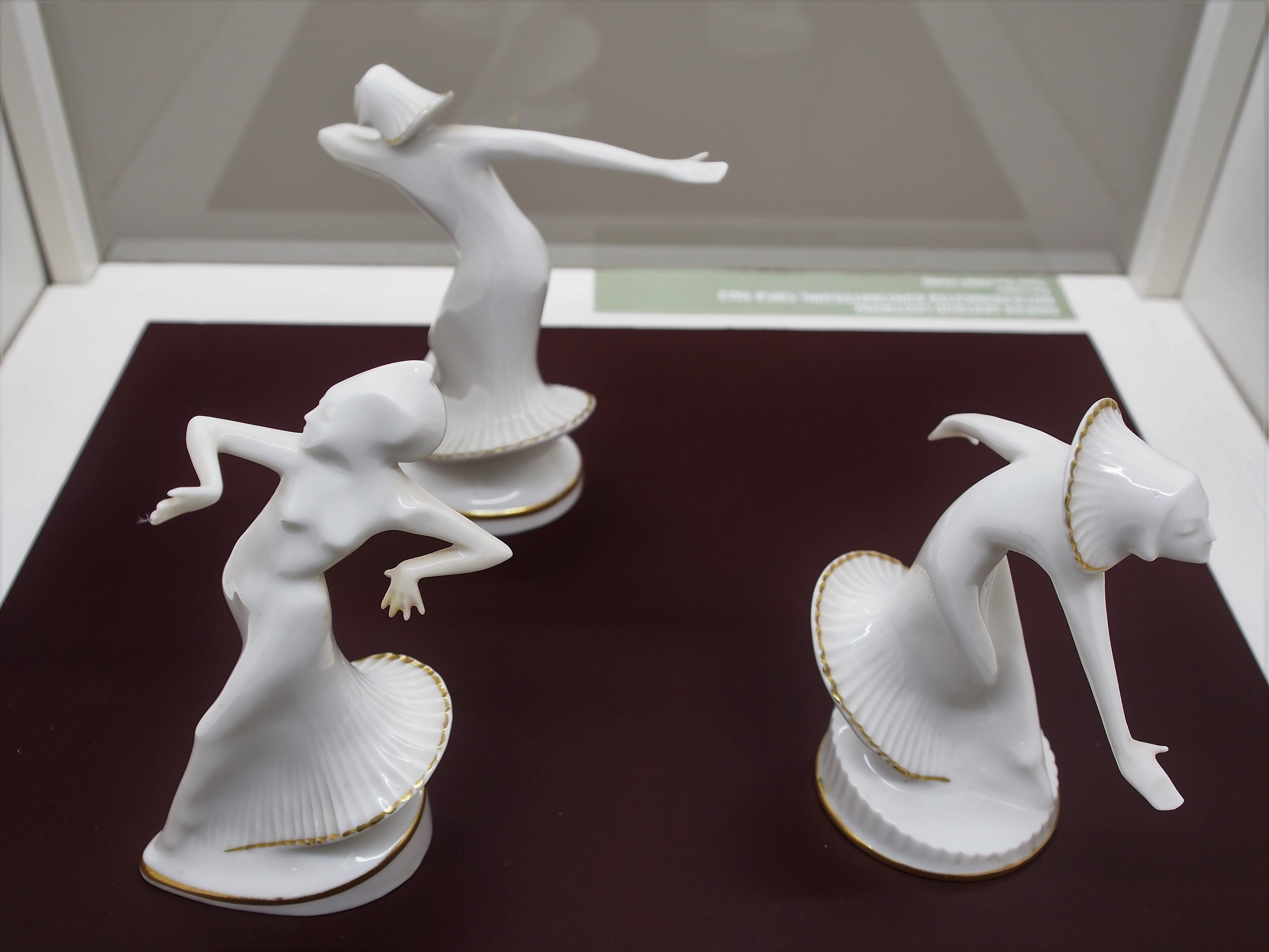 Photographed in Museum Het Schip, Amsterdam.